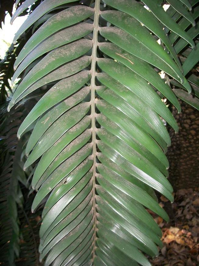 Part of a leaf of a medium sized Encephalartos woodii growing in a shady position at the Durban Botanic Gardens, South Africa